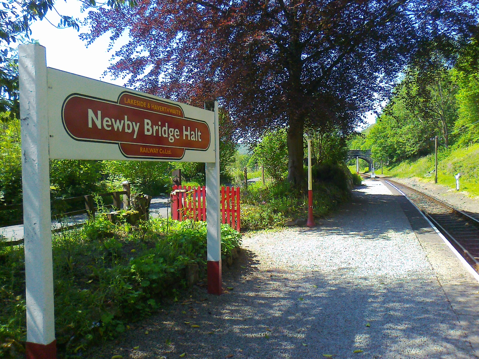 Newby Bridge Halt looking West